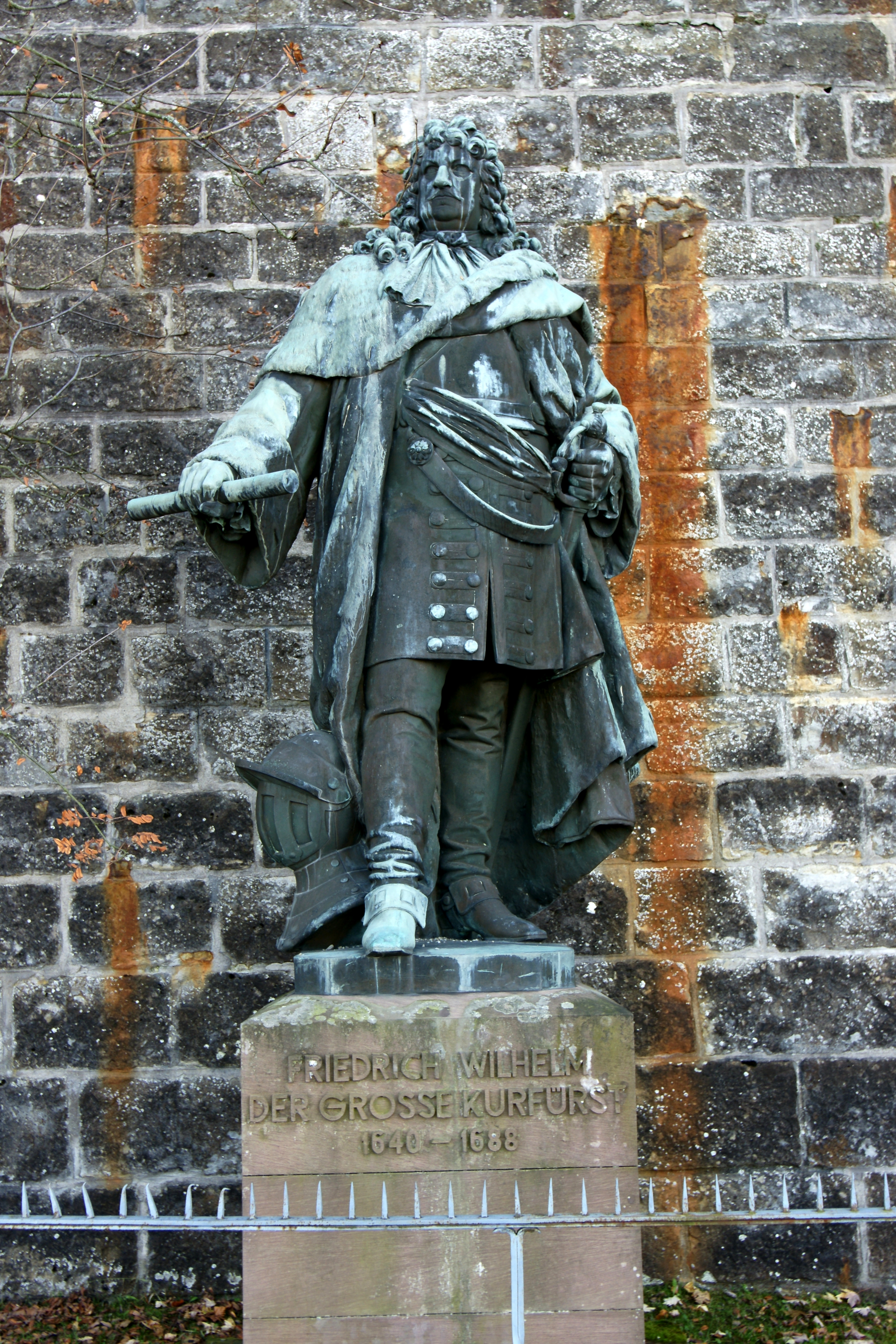 Friedrich Wilhelm I of Brandenburg, sculpted by Erdmann Encke (1883/84)